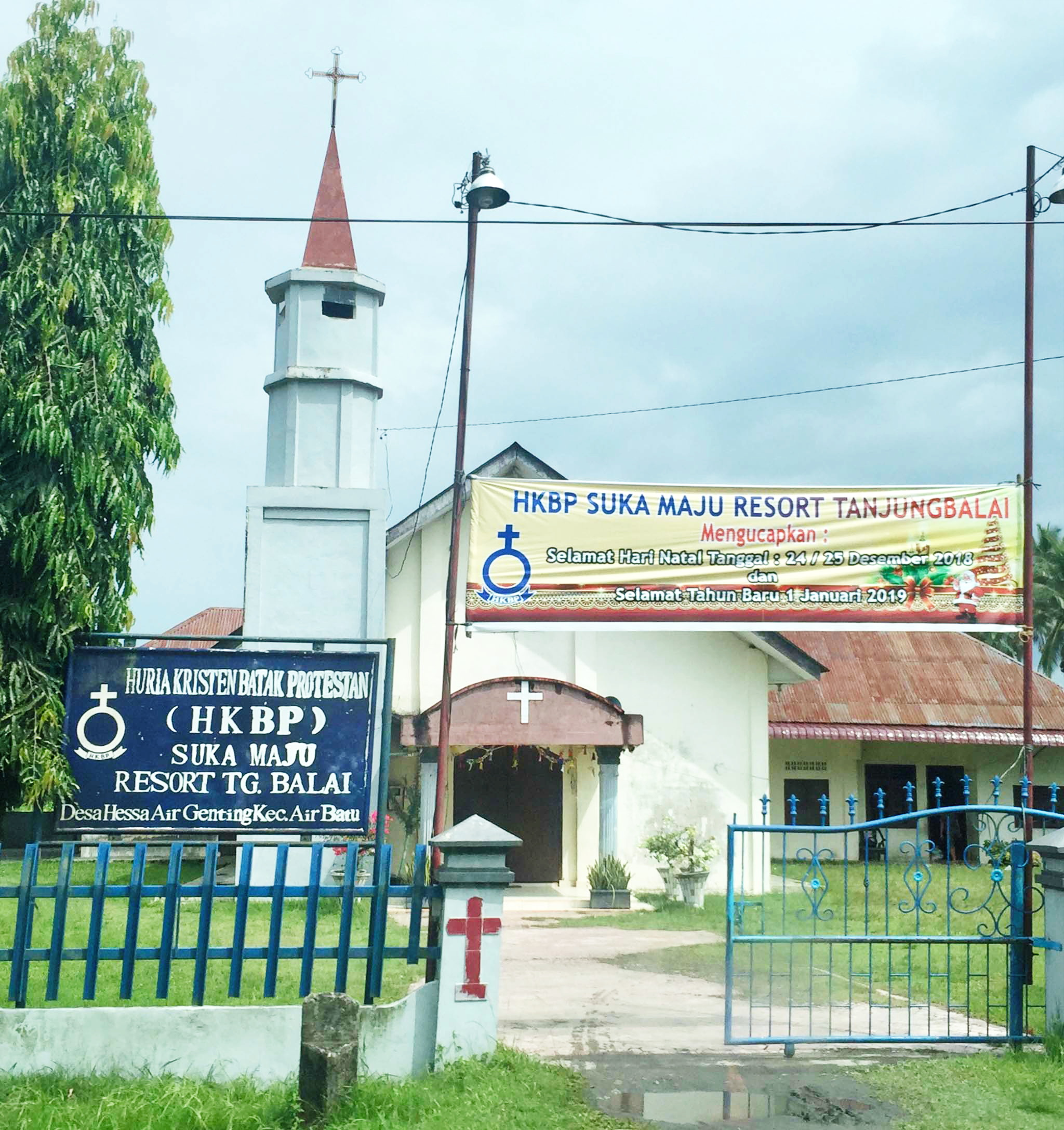 HKBP Suka Maju, Res. Tanjung Balai Church in Hessa Air Genting, Air Batu, Asahan